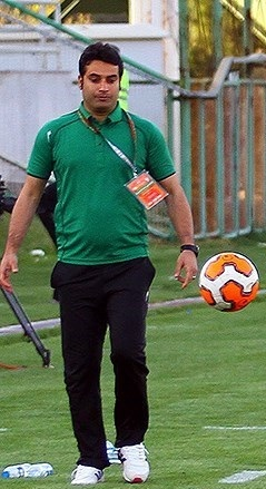 Ali Nazarmohammadi